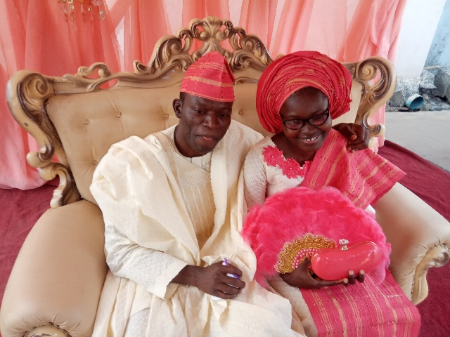 Couples posing during their traditional marriage This is an image with the theme "Play" from: Nigeria